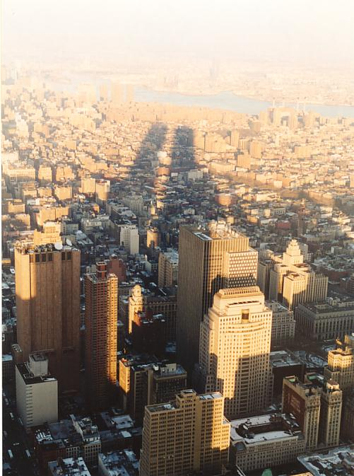 These are relatively low quality scans. I'll scan these in more detail and replace them at some point.